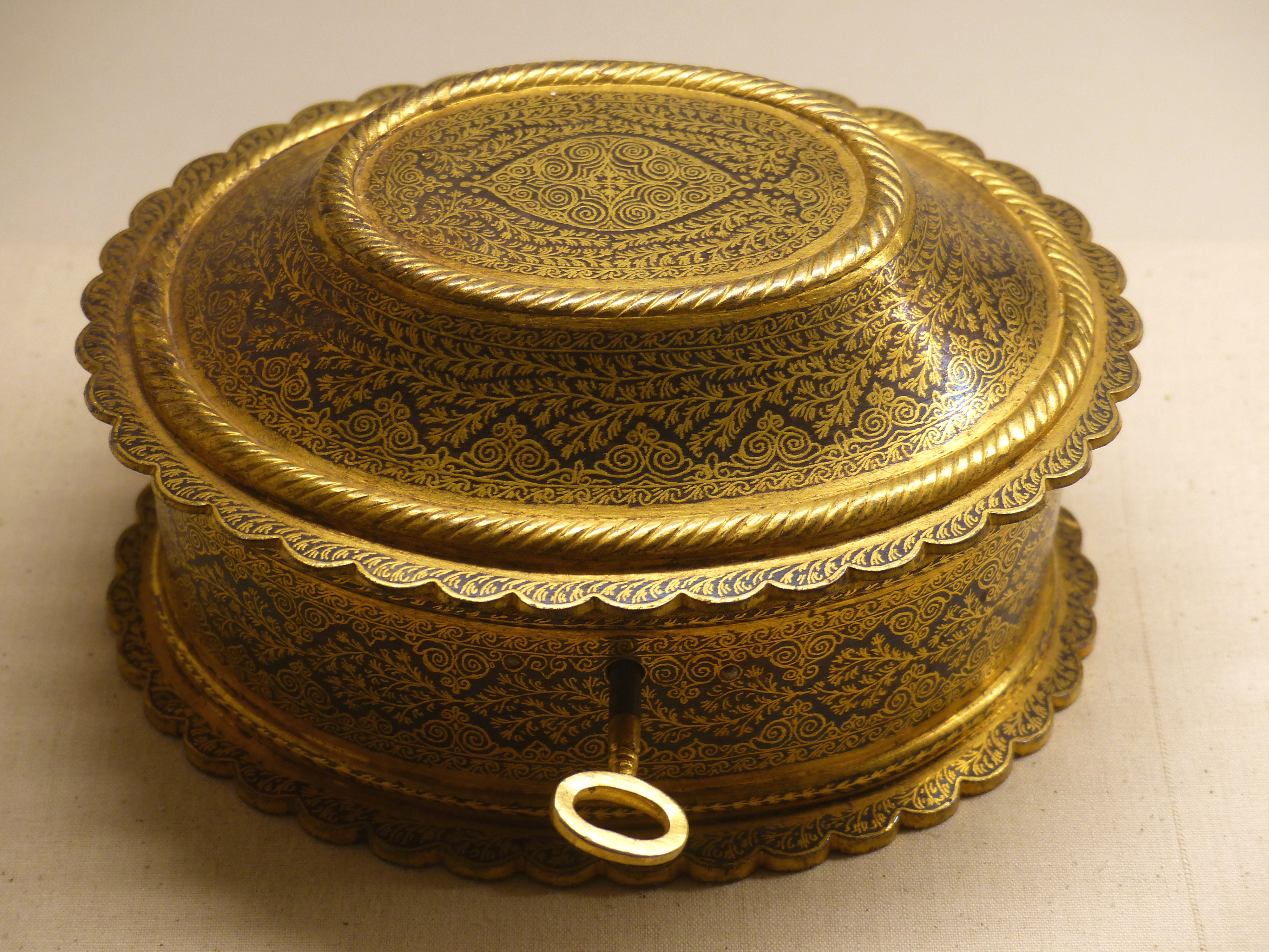 Jodhpur ( Rajastan / India ). Meranghar Fort Museum - Betel box from Marwar ( 19th century )